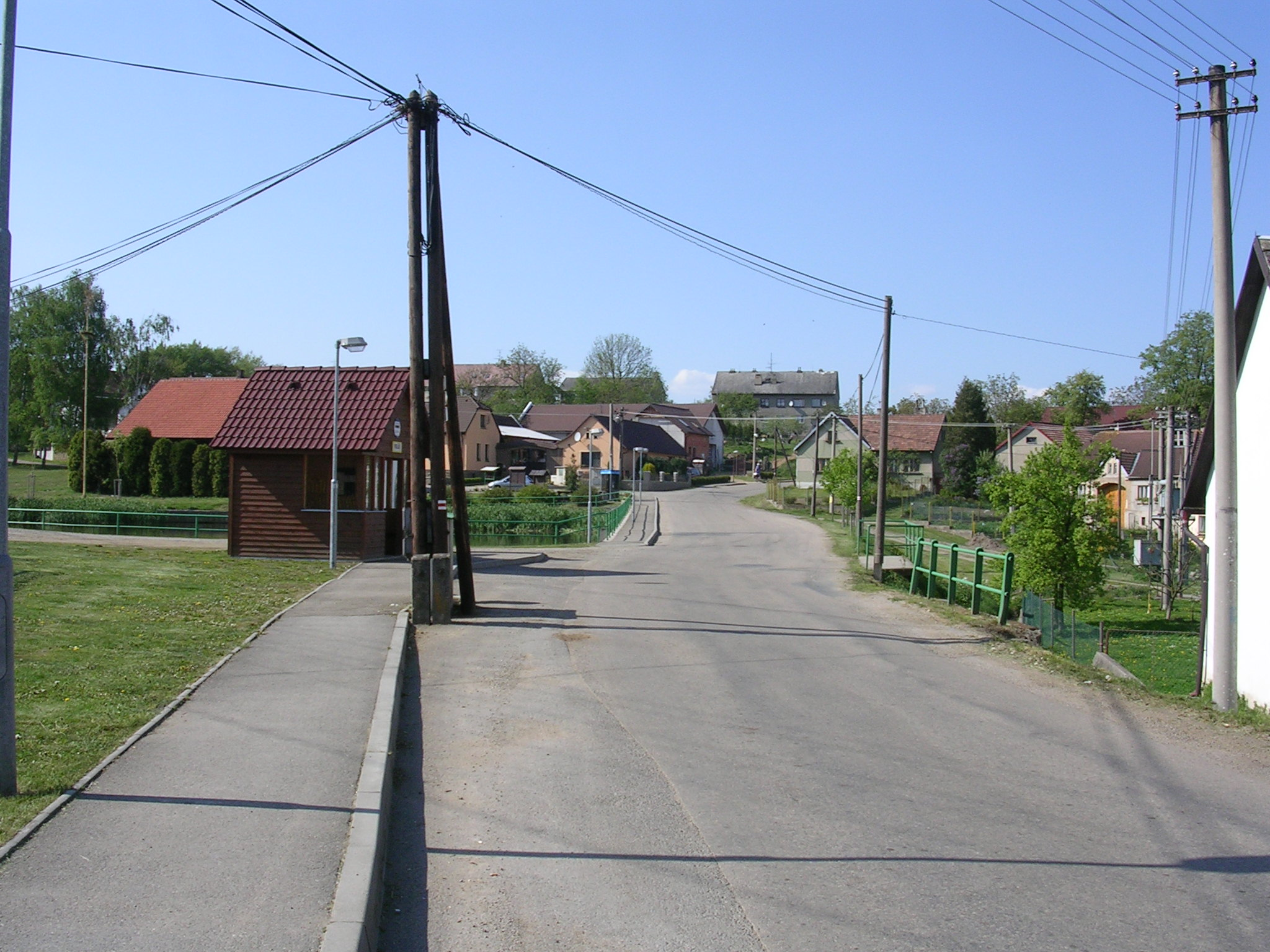 Veliš, Central Bohemian Region, the Czech Republic.